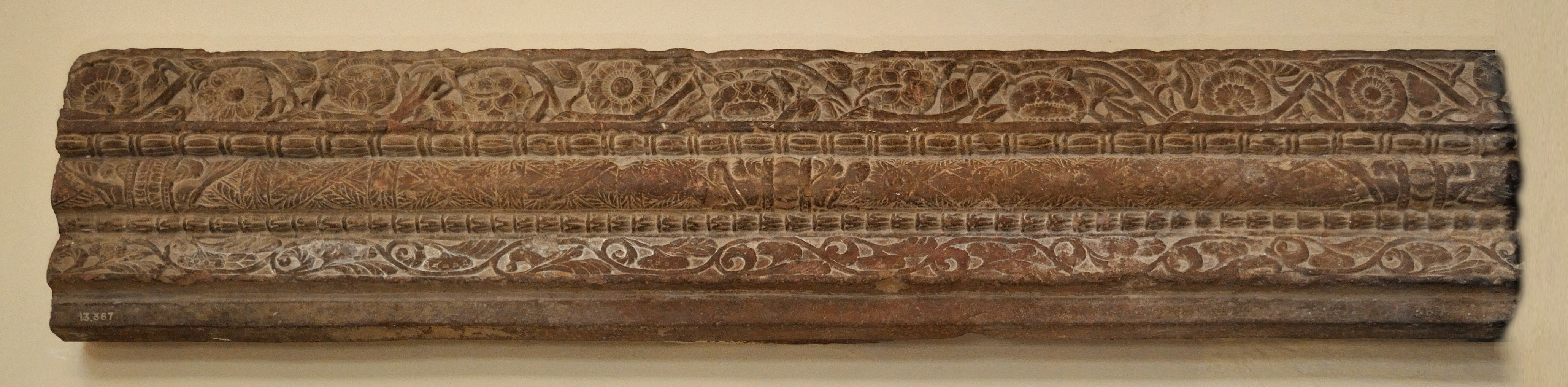 Vasu doorjamb horizontal. Government Mathura Museum GMM 13.367 [1]